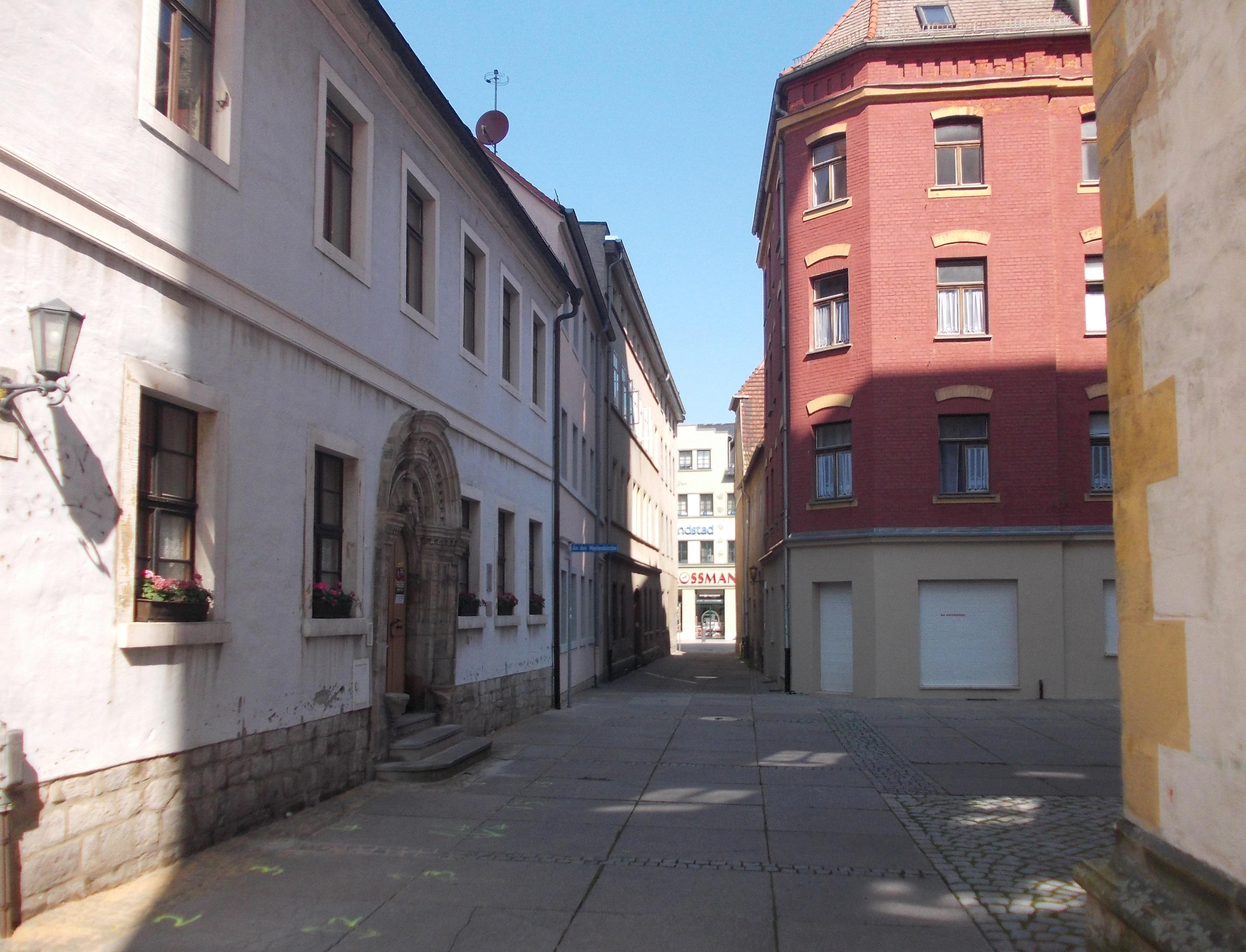 Marienkirchgasse in Weissenfels (district: Burgenlandkreis, Saxony-anhalt)